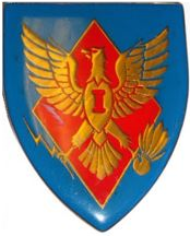 SADF 1 Locating Regiment Regiment Simonsberg insignia